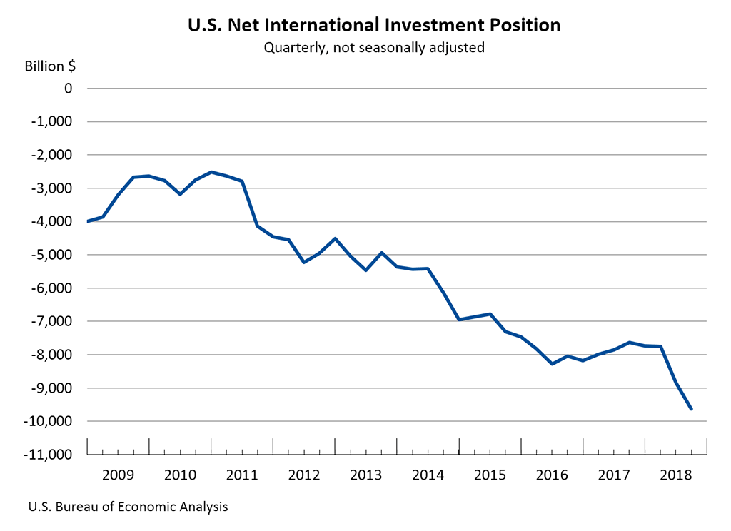 U.S. Net International Investment Position over time through third quarter of 2018